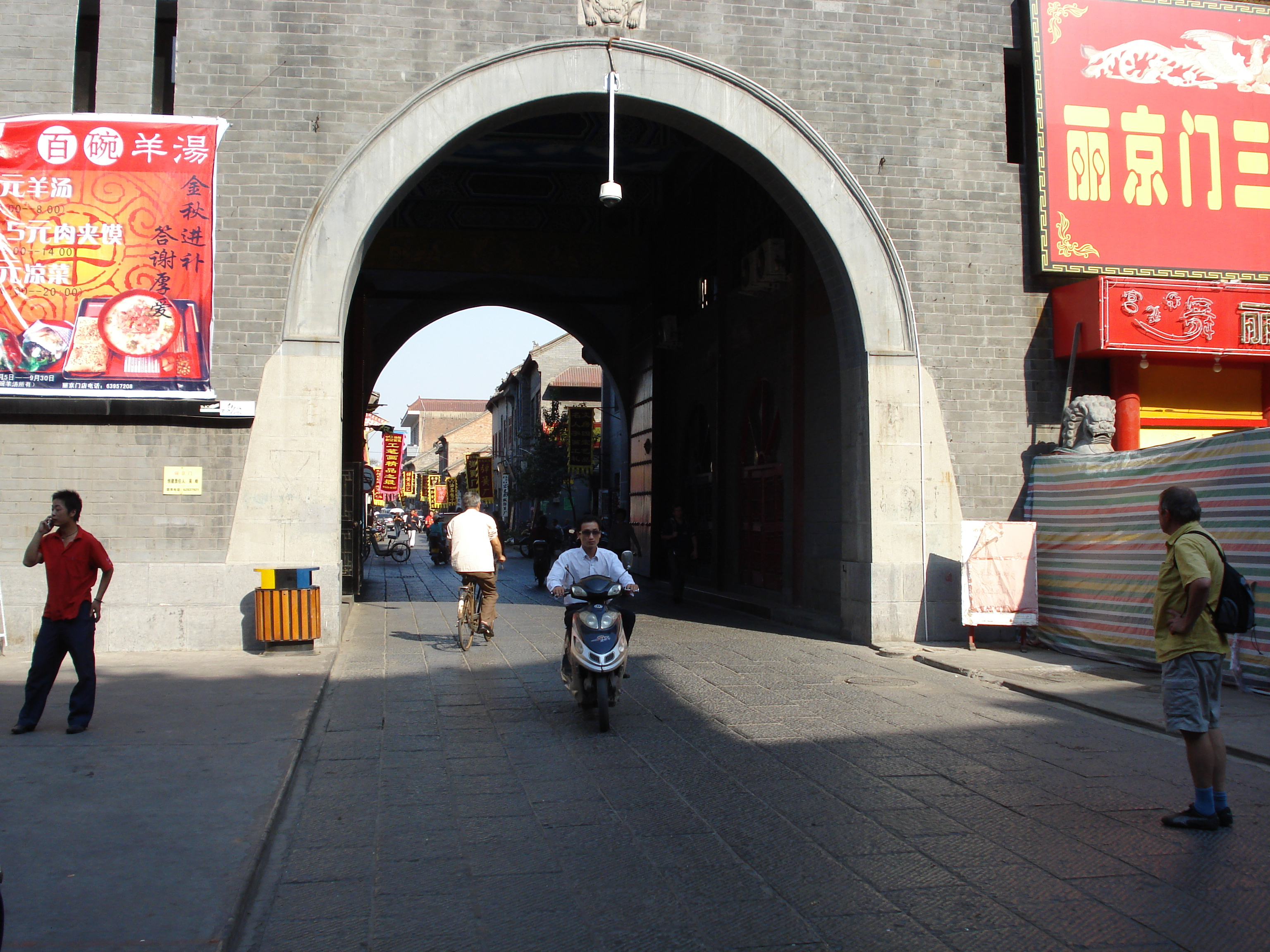 town gate of Luoyang